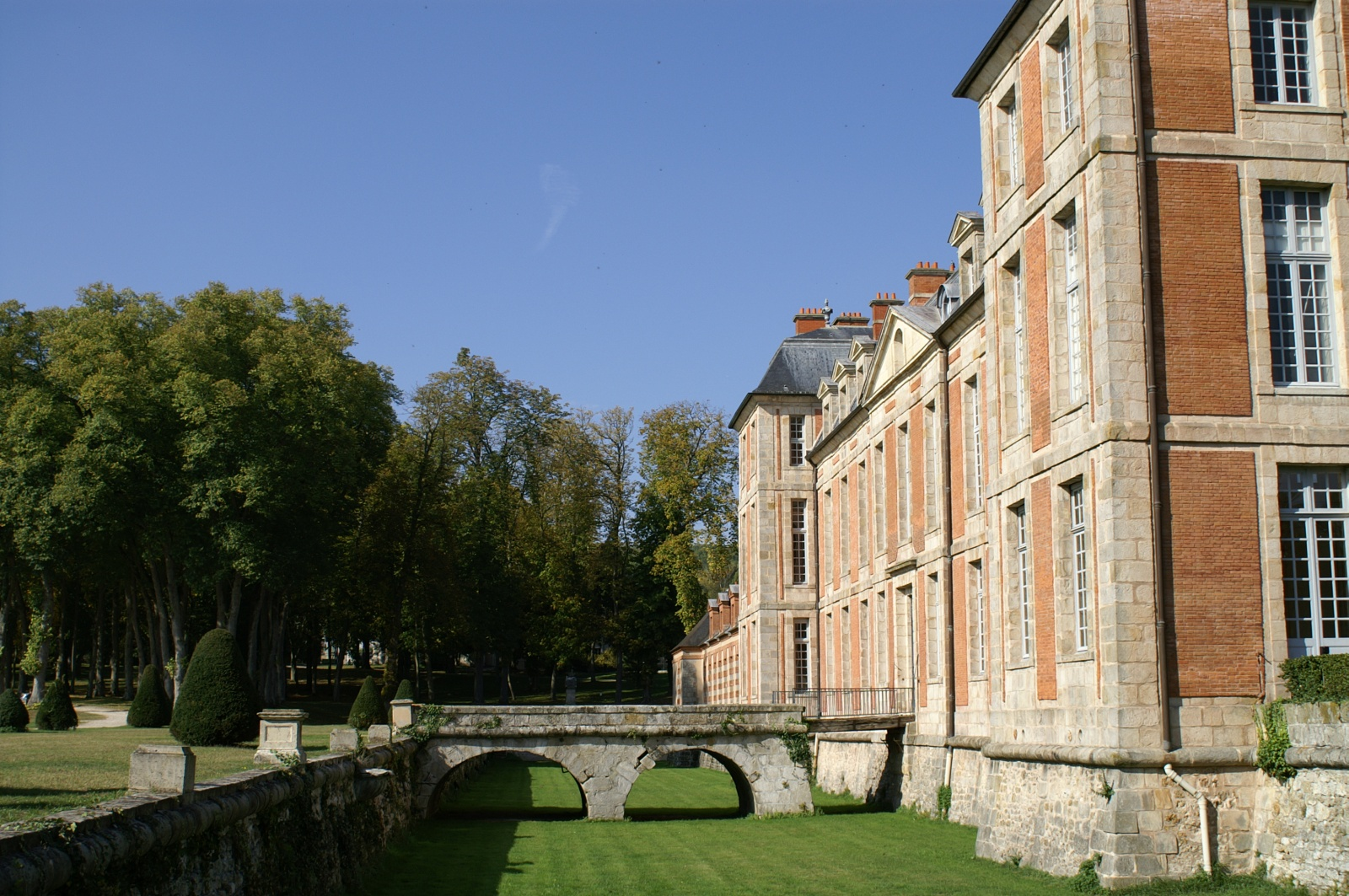 France : Castle of Chamarande (Essonne)